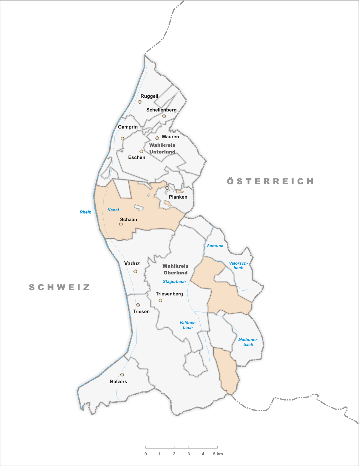 Municipality Schaan